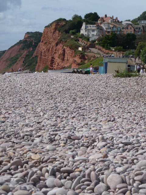 Budleigh Salterton: pebble beach Looking along the beach, towards the red cliffs to the west of the town centre.